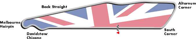 Circuit layout used at Davidstow circuit post 1953.